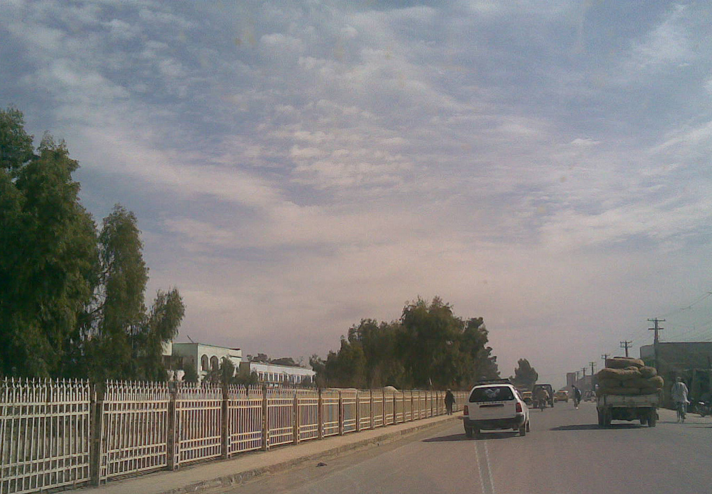 Street in Kandahar City, Afghanistan.